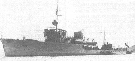 The Soviet project 19 border guard ship Kirov (PSK-2).